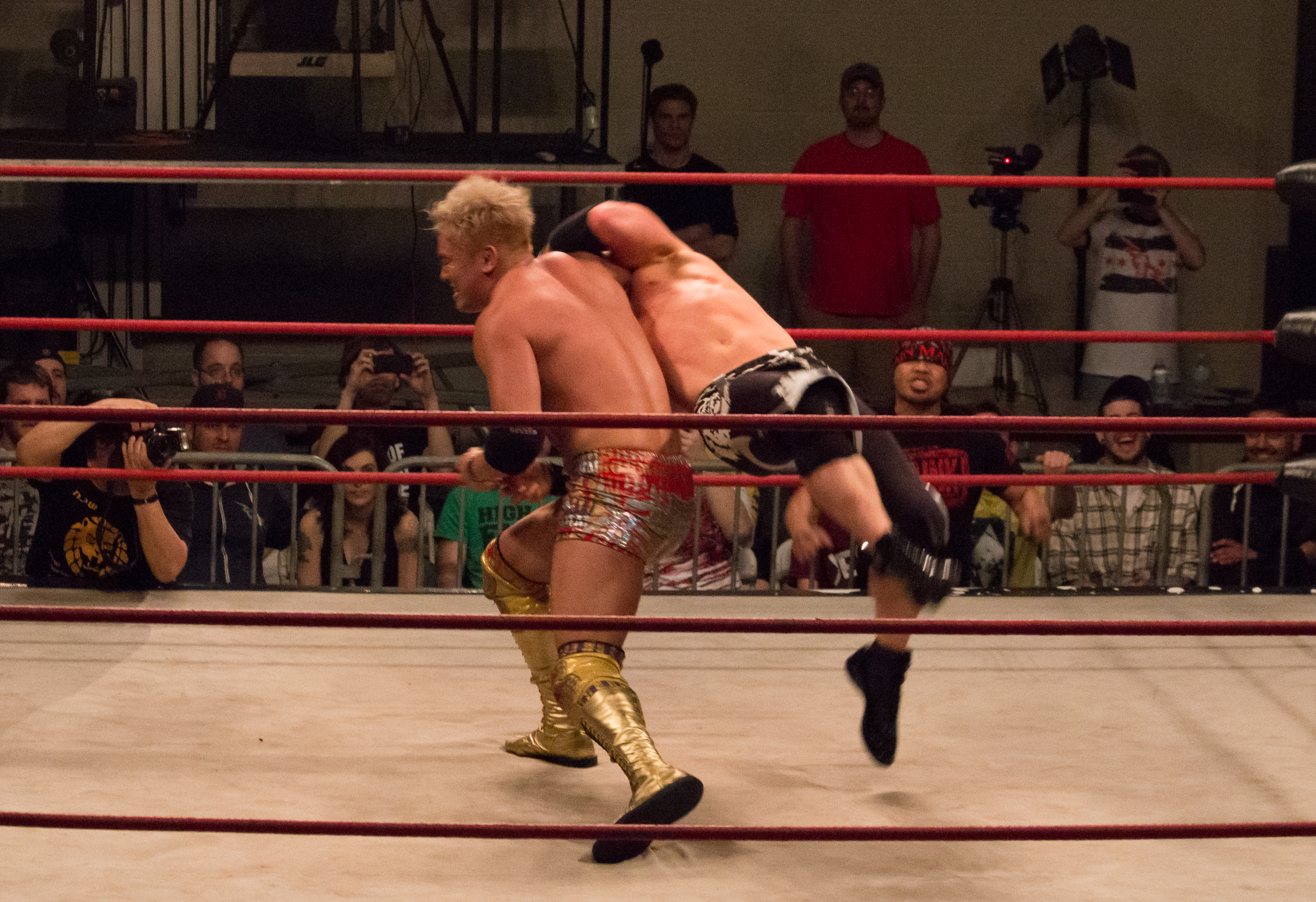 Kazuchika Okada hitting his Rainmaker move (a short-arm lariat) on Chris Sabin at BCW's East Meets West show at St Clair College in Windsor, ON